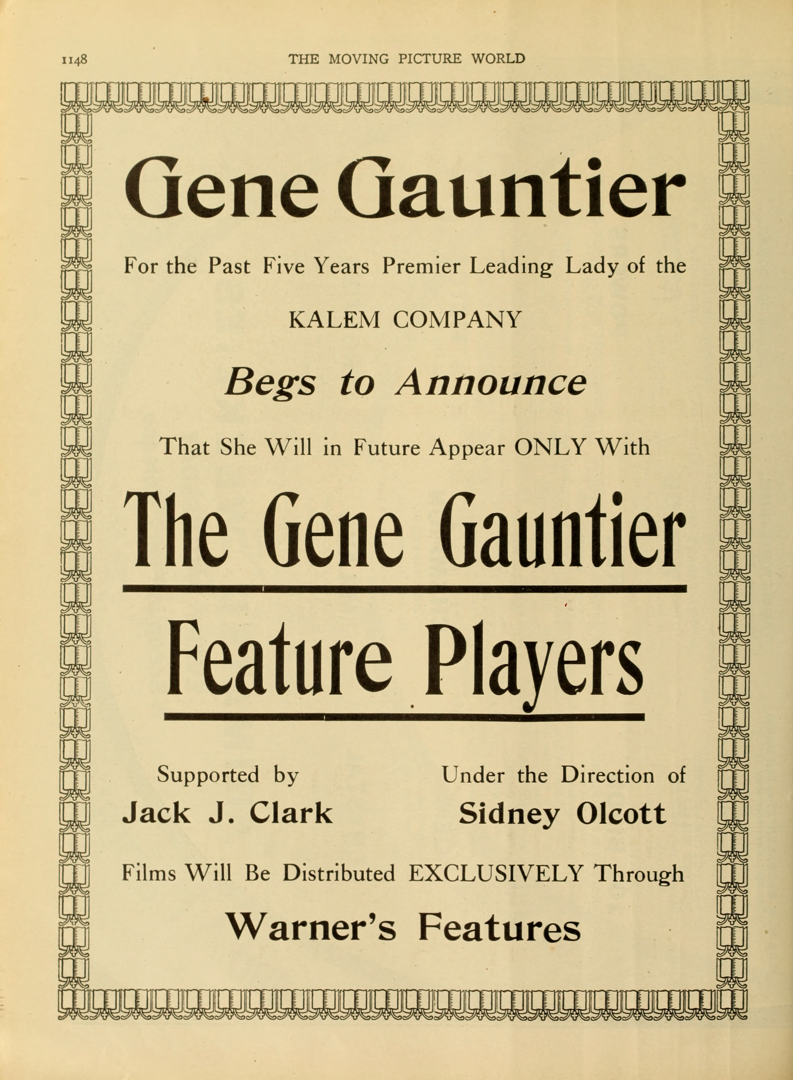 Gene Gauntier Feature Players, announcement by Gene Gauntier in The Moving Picture World, December 21st, 1912, p. 1148